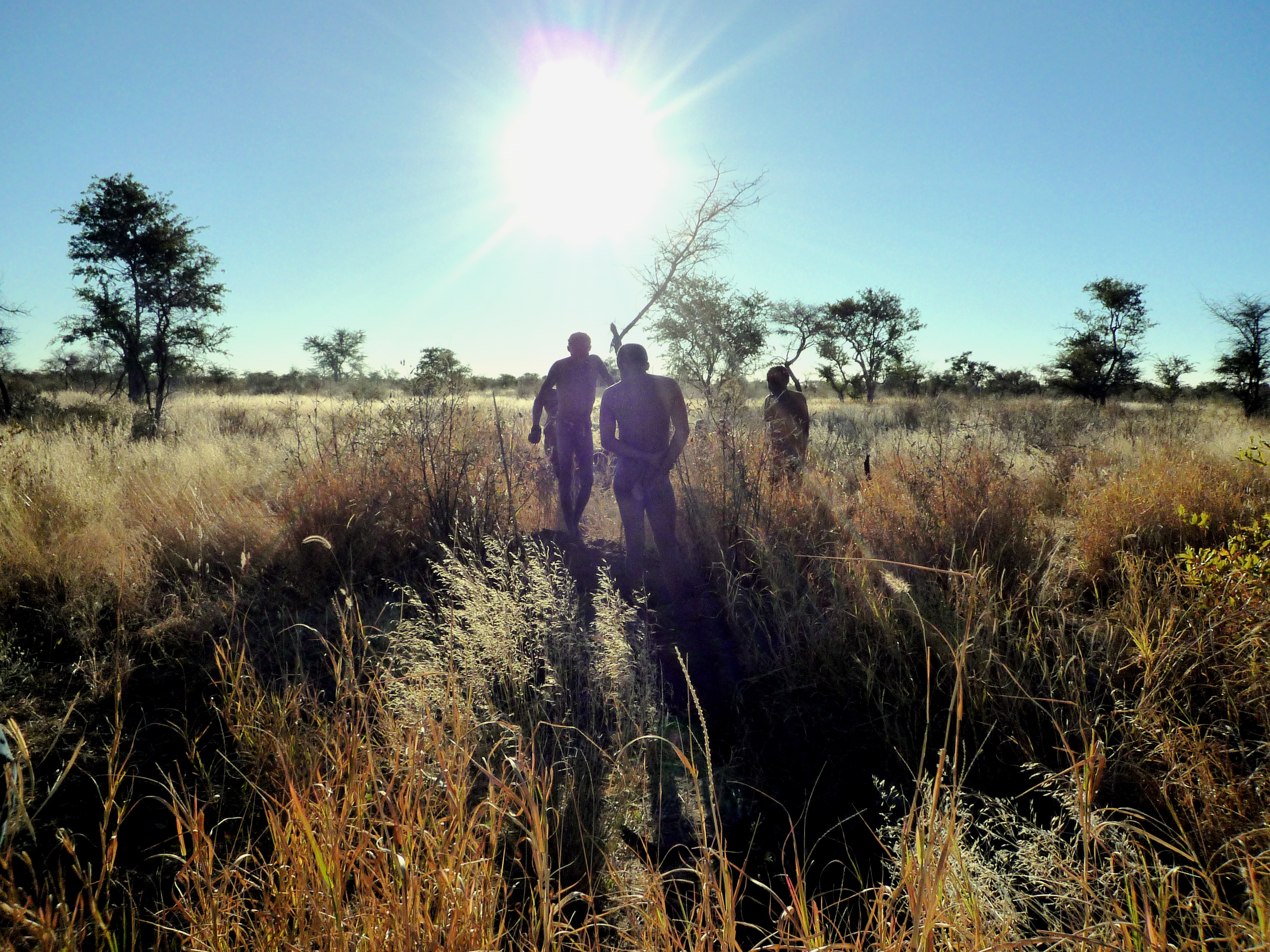 Photographer's description: Outside the village of Doupos, east of Tsumkwe, Nyae Nyae Conservancy, North East Namibia. I followed the bushmen as they hunted for porcupine.